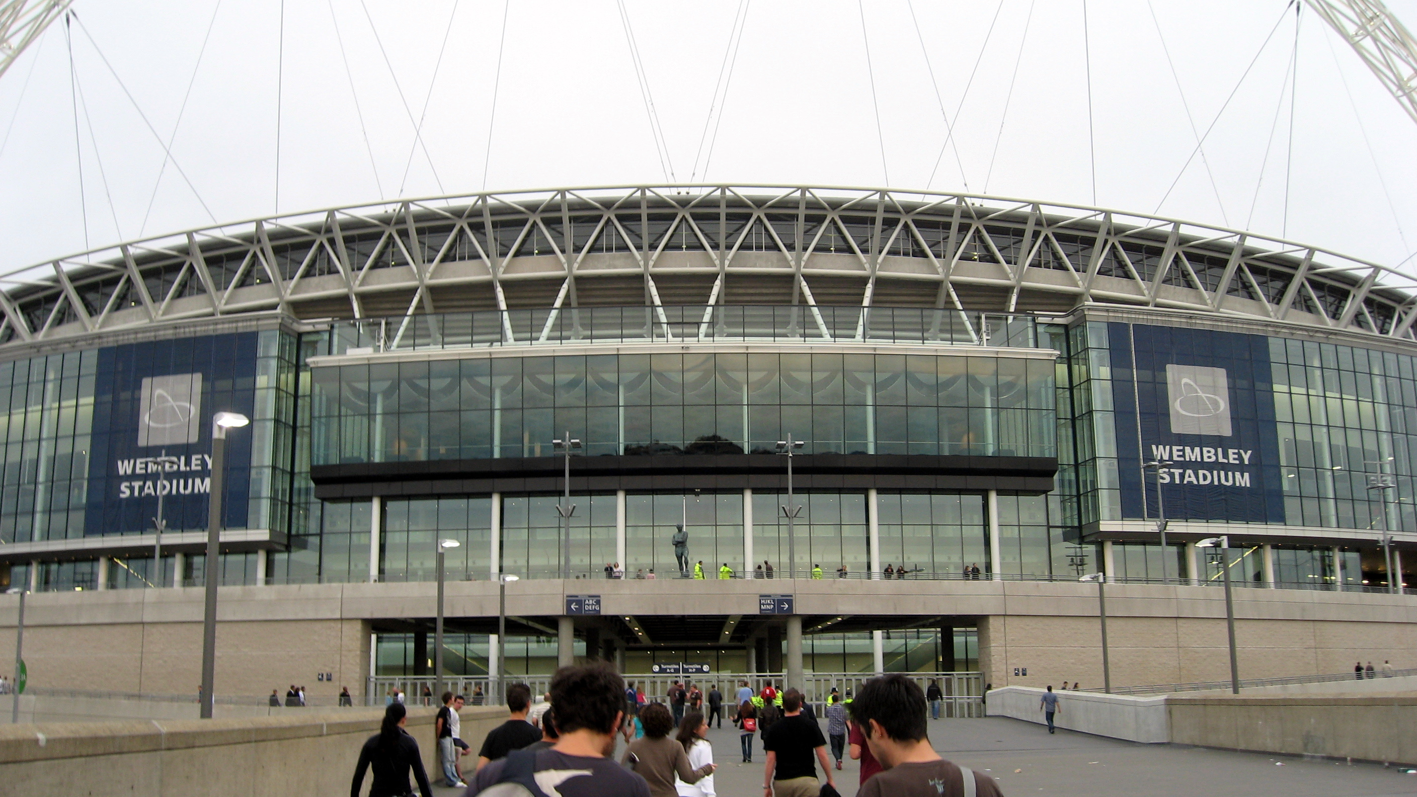 The north side of Wembley Stadium in London, looking down Wembley Way, with the statue of Bobby Moore in the centre of the picture.